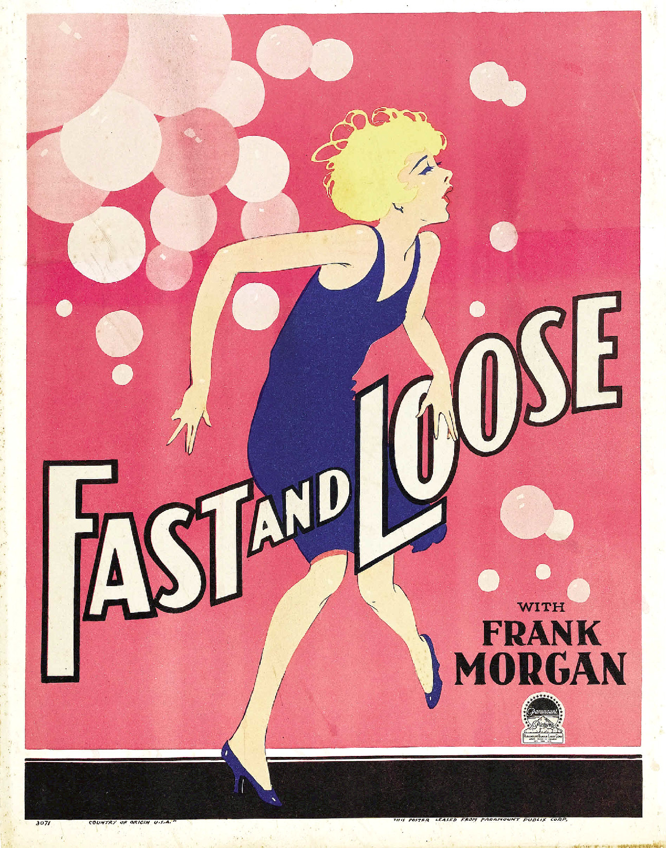 Window Poster for the 1930 film Fast and Loose. The original source of the poster before refurring and relicensing is here. It shows the full window poster with the theater name above. This is the source used for the present copy. It also shows the same theater name. It has been cropped to conform with original upload. There are no copyright marks on the poster. At bottom left is 3071 Country of origin USA. At bottom left is This poster leased from Paramount Publix Corp.